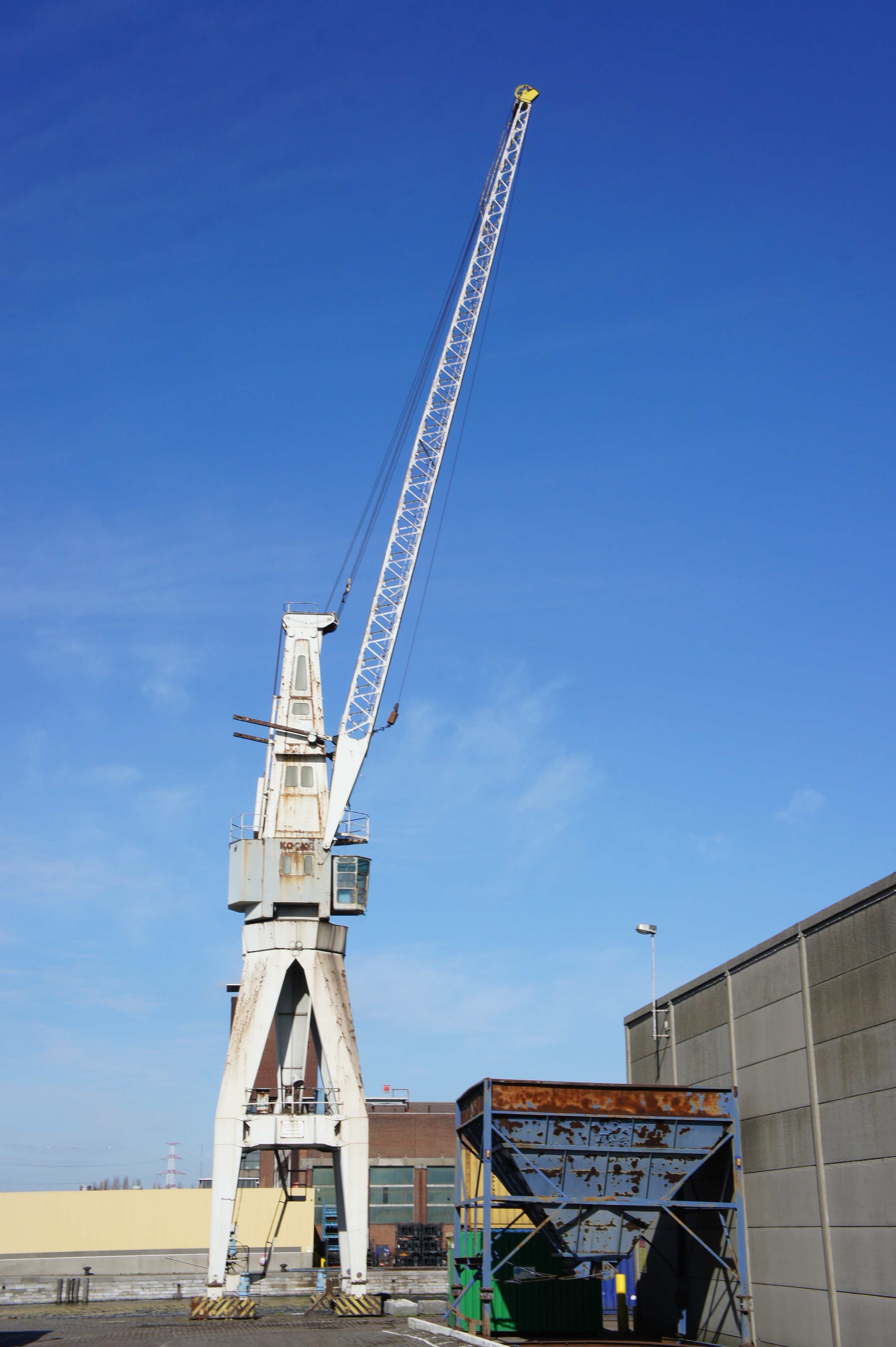 Old Port crane at the Wilmarsdonksteenweg, Port of Antwerp.